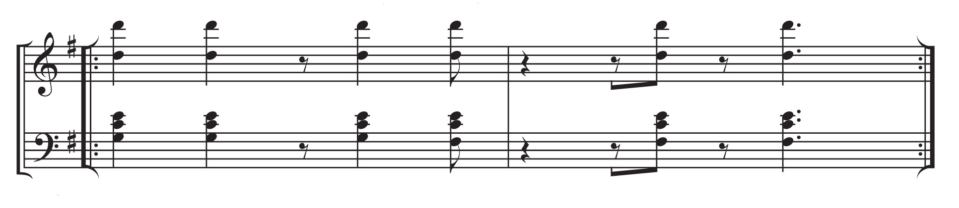 ponchando piano part in cut-time